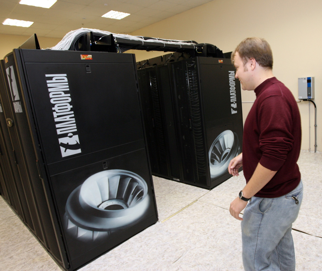 “SKIF CYBERIA supercomputer at the Tomsk State University”. An engineer shows the supercomputer SKIF CYBERIA at the Tomsk State University. The computer is the most powerful in Russia, the Commonwealth of Independent States and Eastern Europe.